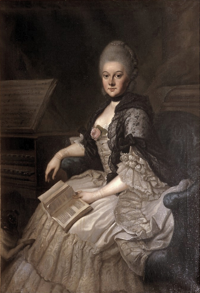 Painting from a cycle of paintings in the Castle of Weimar, oil on canvas, Stiftung Thüringer Schlösser und Gärten